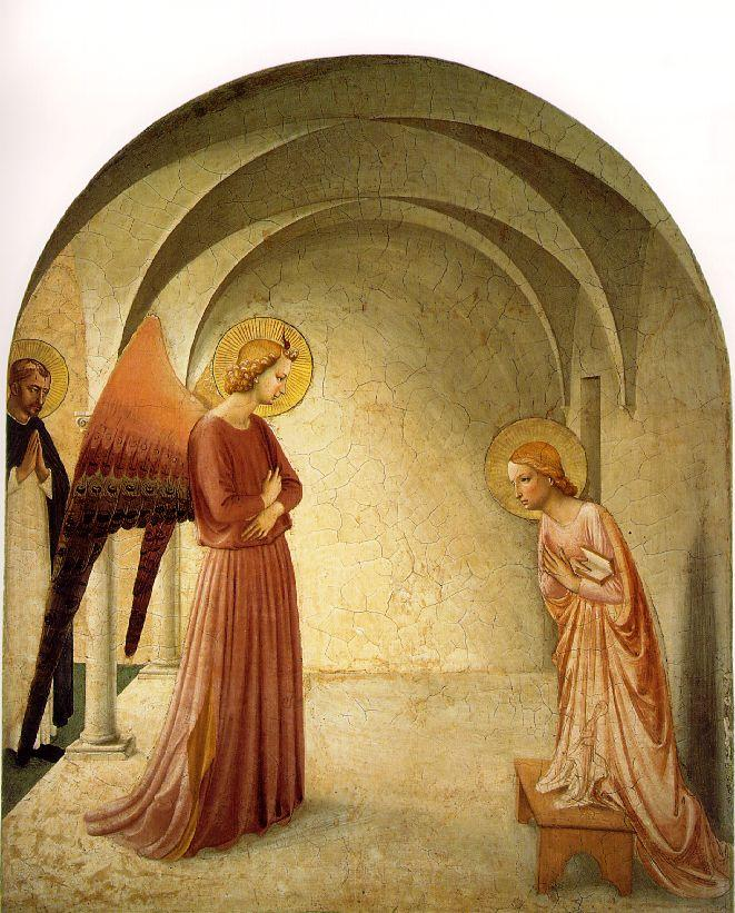 Annunciation